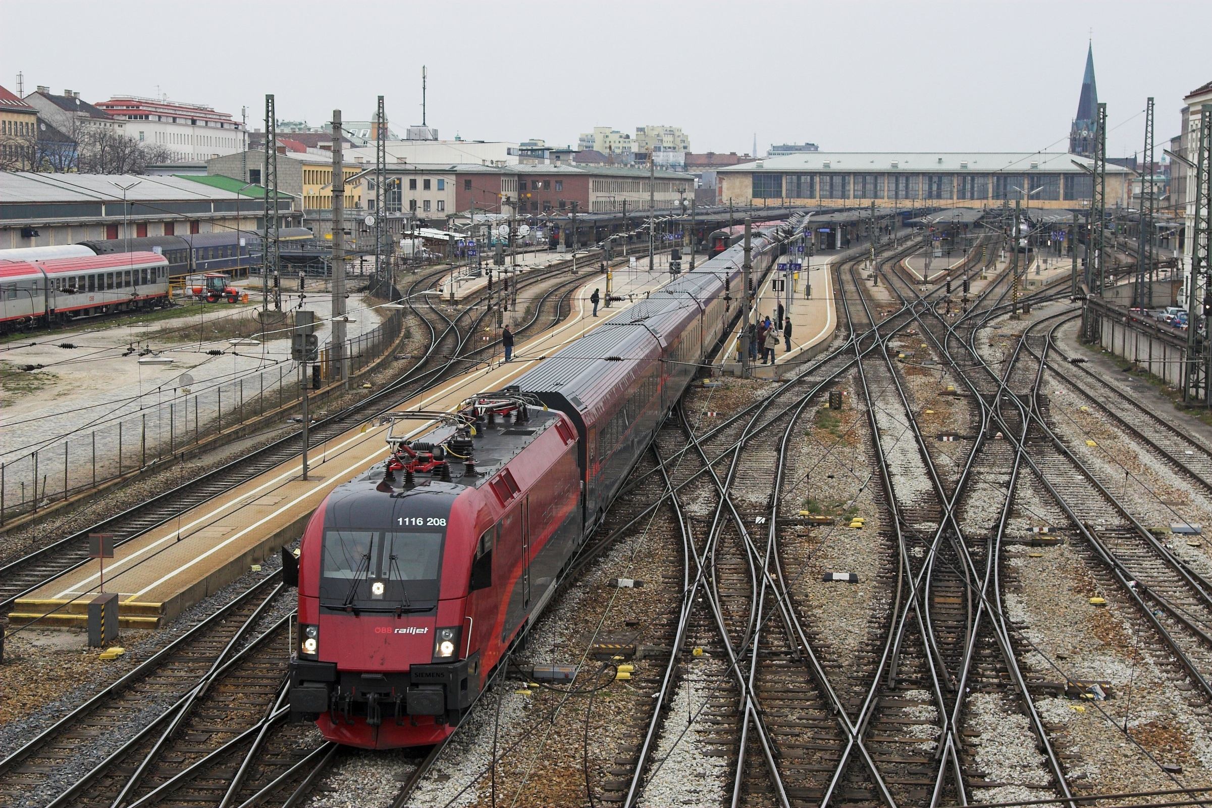 A Railjet train with locomotive 1116 208 leaves Wien Westbahnhof station.